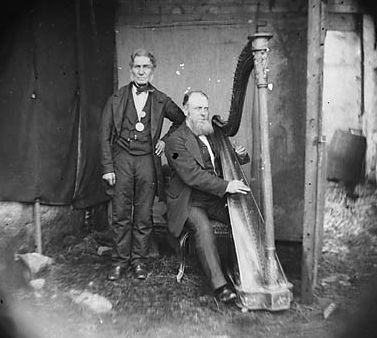 1 negative : glass, wet collodion, b&w ; 21.5 x 16.5 cm.